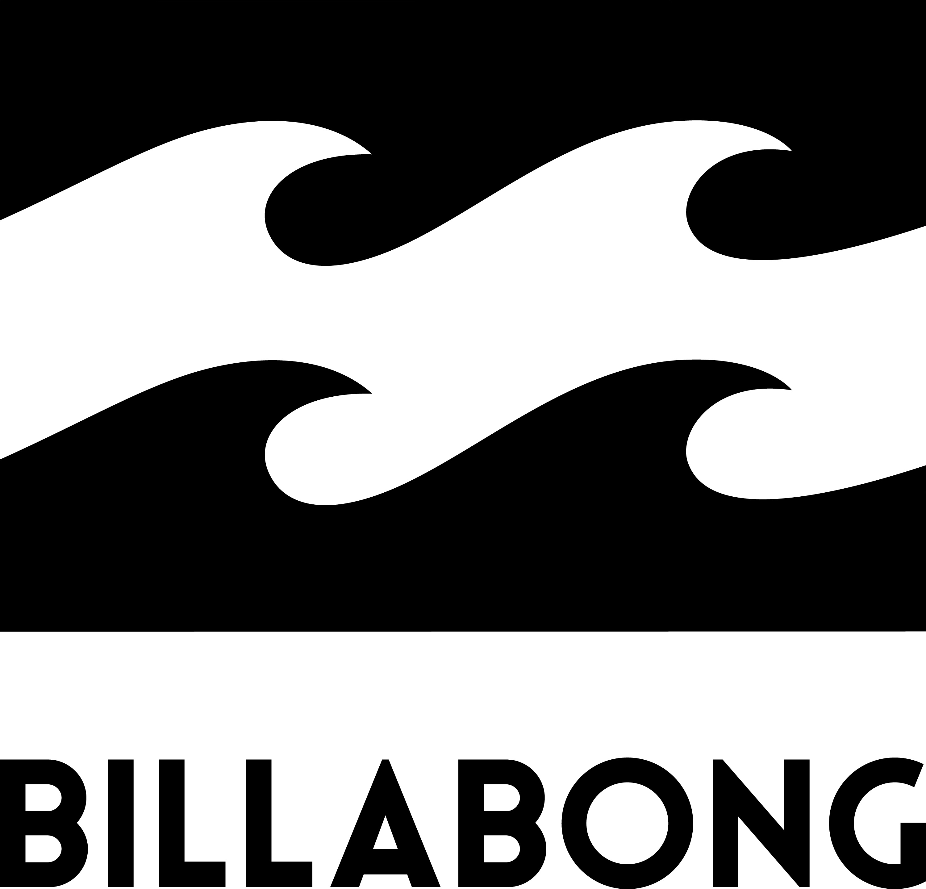 BB new edition update